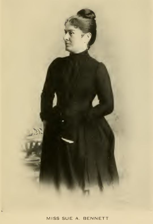 Formal portrait of Susan Ann Bennett taken from an illustration found after page 82 of the 1928 biography by Mrs. R.W. MacDonell of suffragist and Southern Methodist missionary leader Belle Harris Bennett. Sue Bennett was Belle's older sister who served on the Central Committee of the Woman's Parsonage and Home Mission Society, a department of the Southern Methodist Board of Church Extension. She lobbied for Methodist schools and churches to be established in the southeastern mountains of Kentucky. Her dream was finally realized after her death due to the work of her younger sister, Belle, in getting a school built in London, Kentucky.